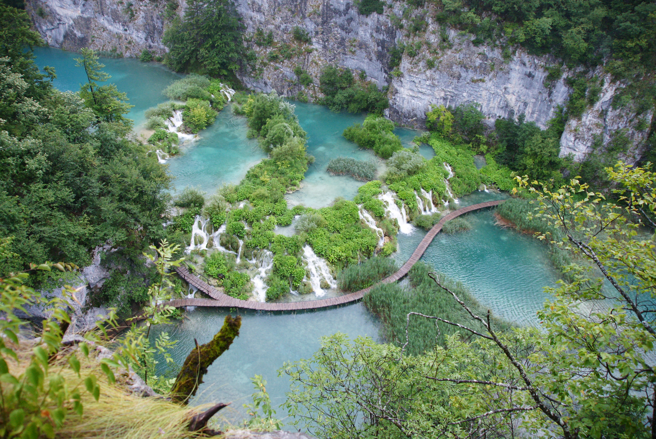 Plitvice nationalpark.